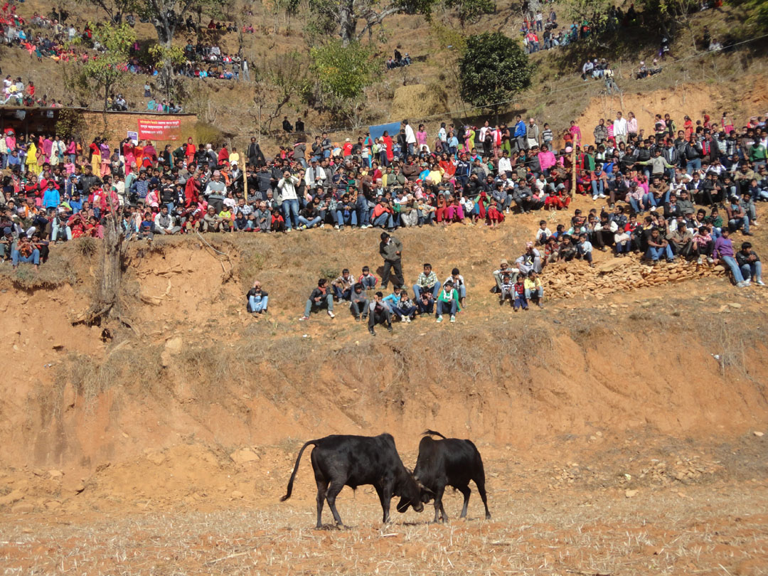 A cultural festival of Nepal that occur on the first day of month of Magha.